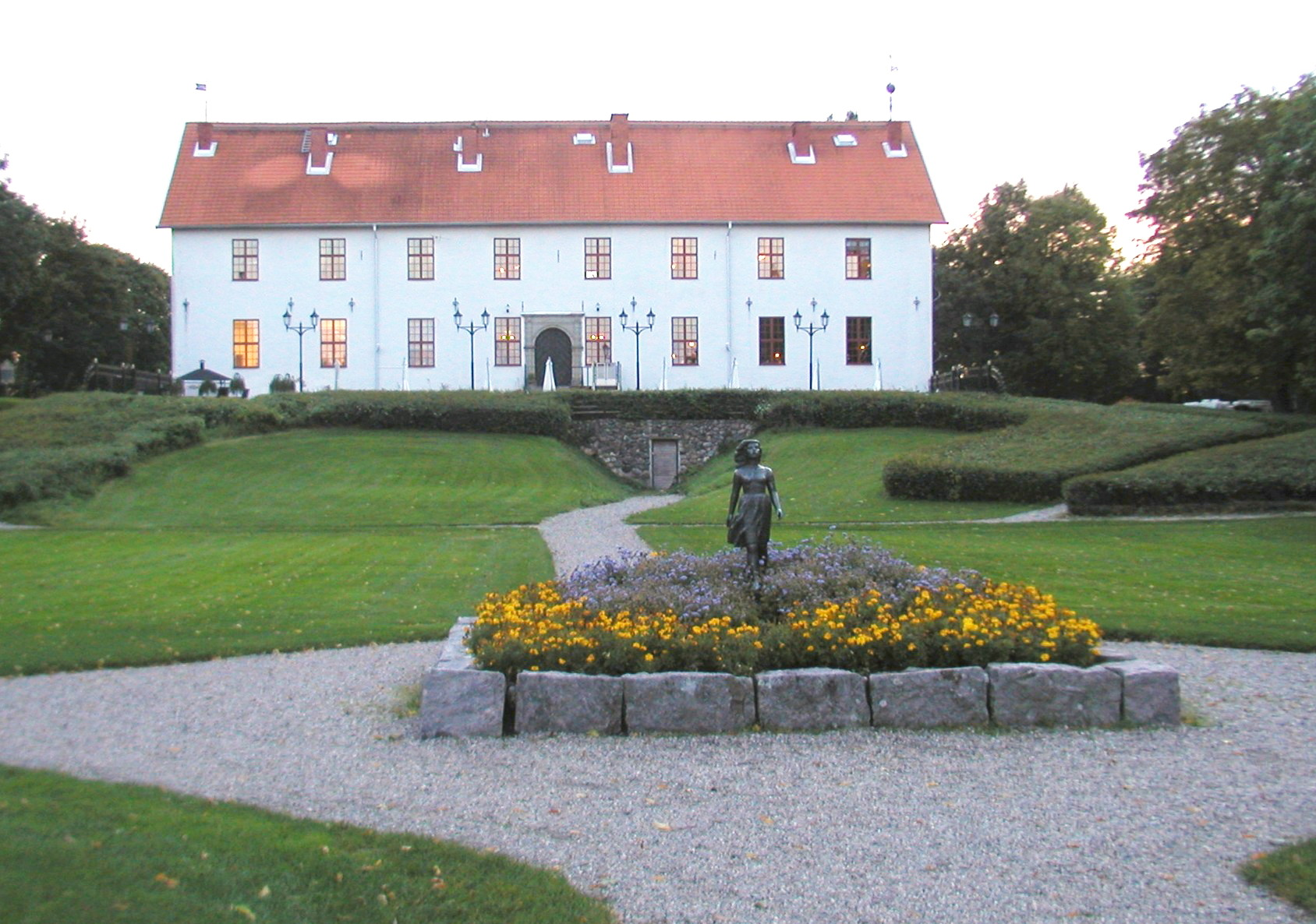 Sundbyholm Castle, at Sundbyholm outside Eskilstuna, Sweden